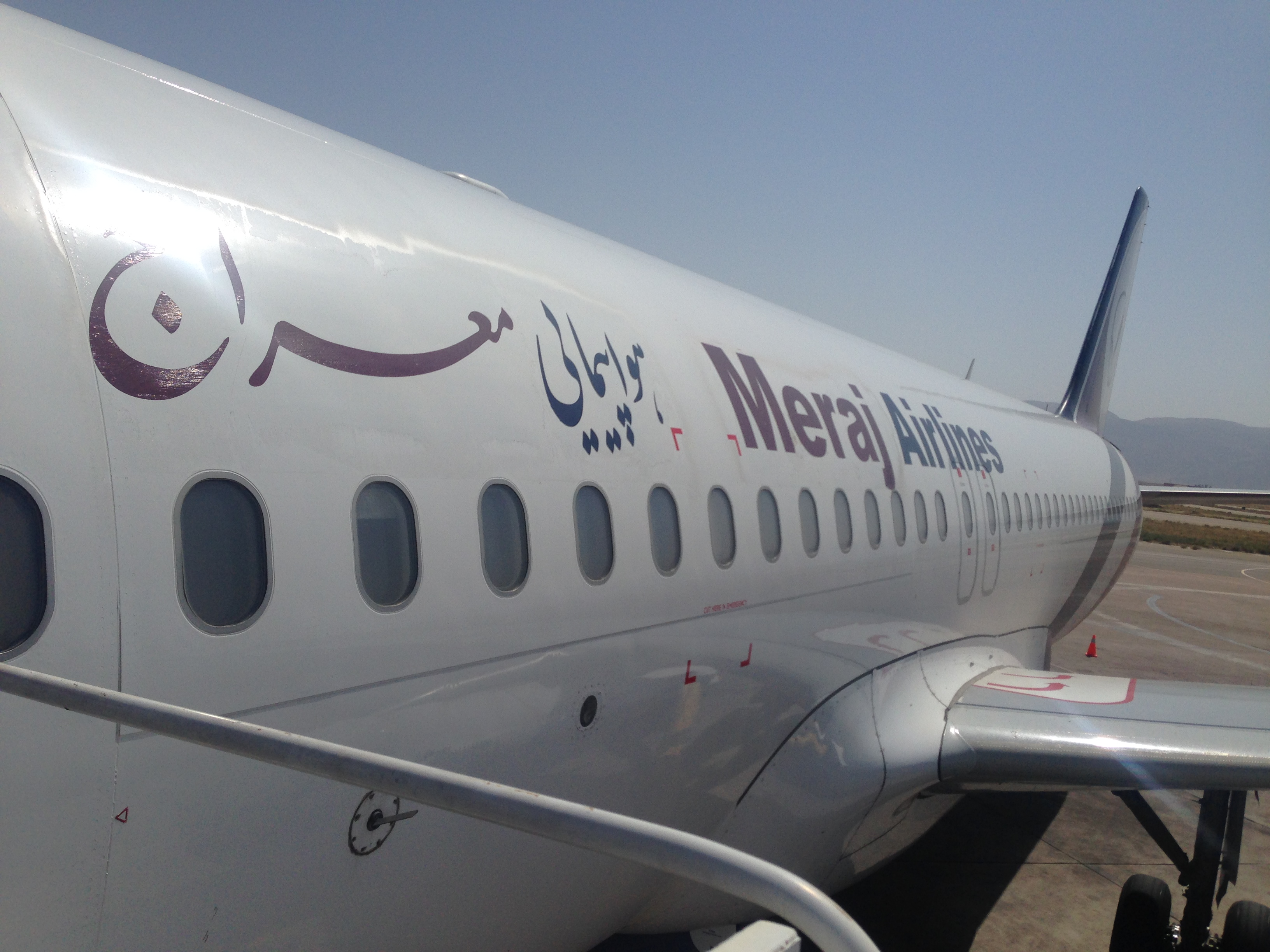 Meraj Air A320 @OISS